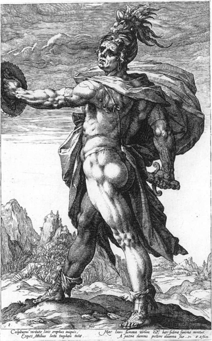 Part of the series {name }.